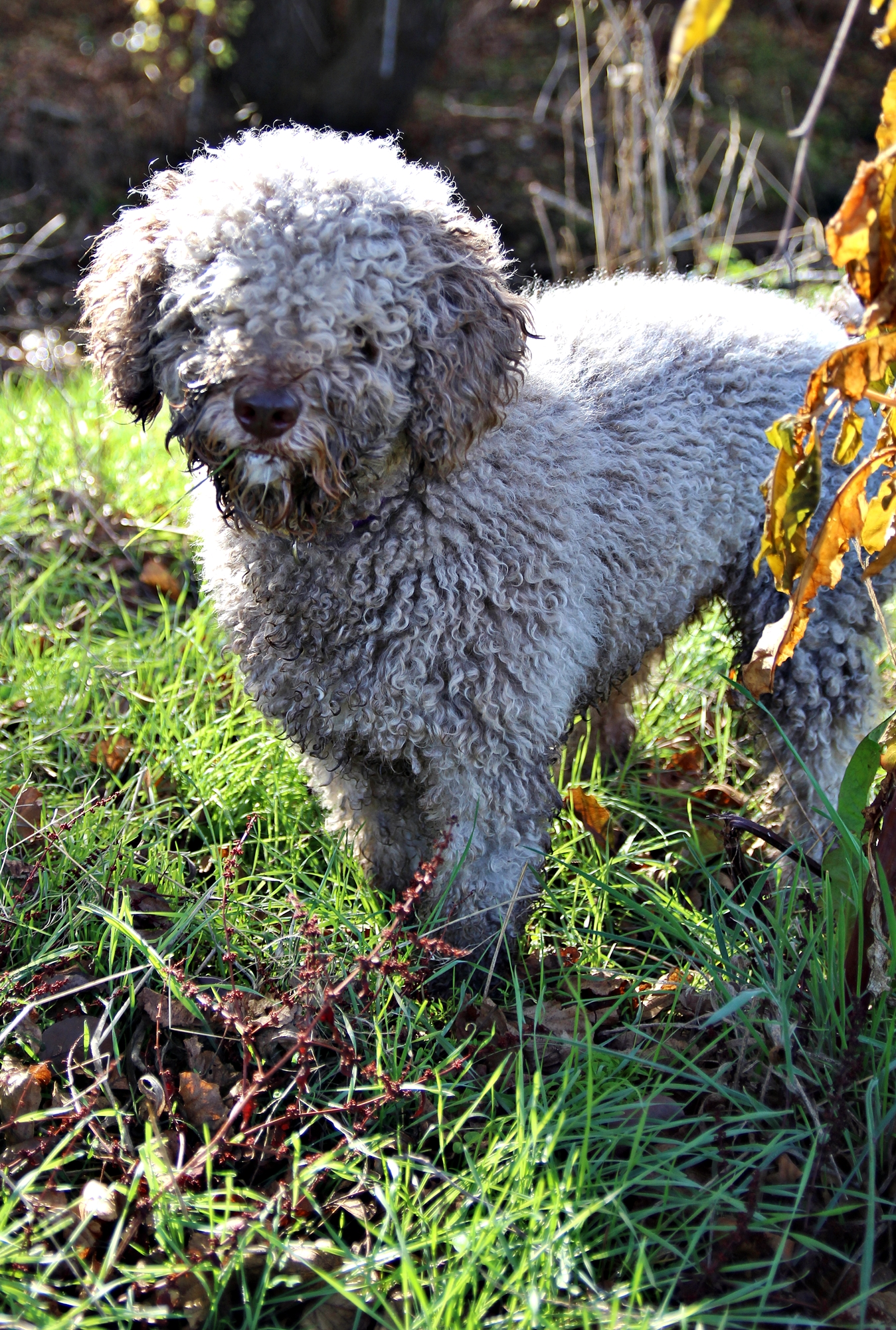 Spanish water dog female, 2 years old